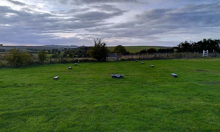 Markers specifying the point at which The Sanctuary attaches to West Kennet Avenue, a line of stones that links this monument to Avebury. Located on Overton Hill in Wiltshire.